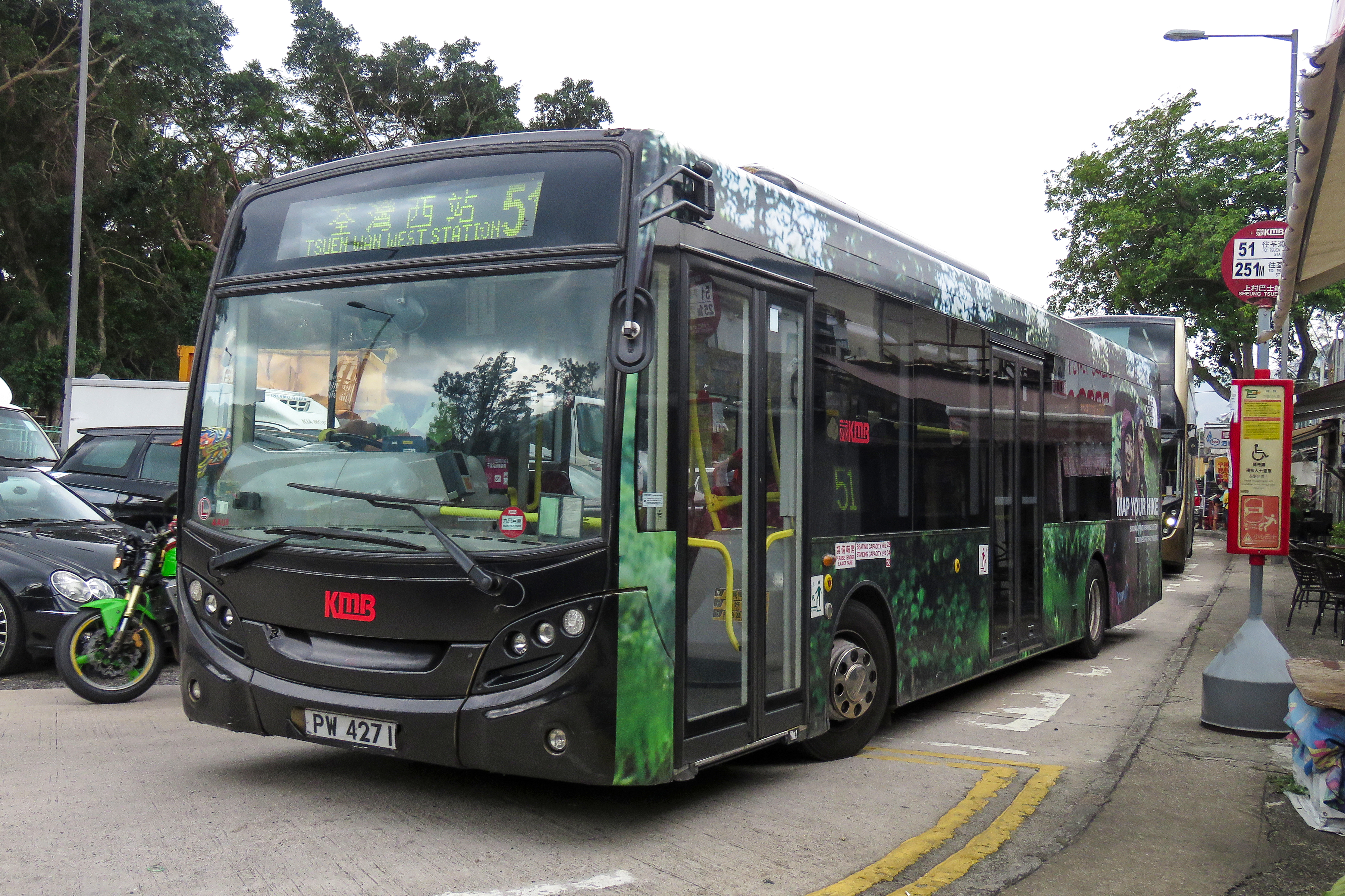 Even the single-deck E200 has full-body advertisement: this one by The North Face. Appropriate for this "Hikers' Route" via Route Twisk.